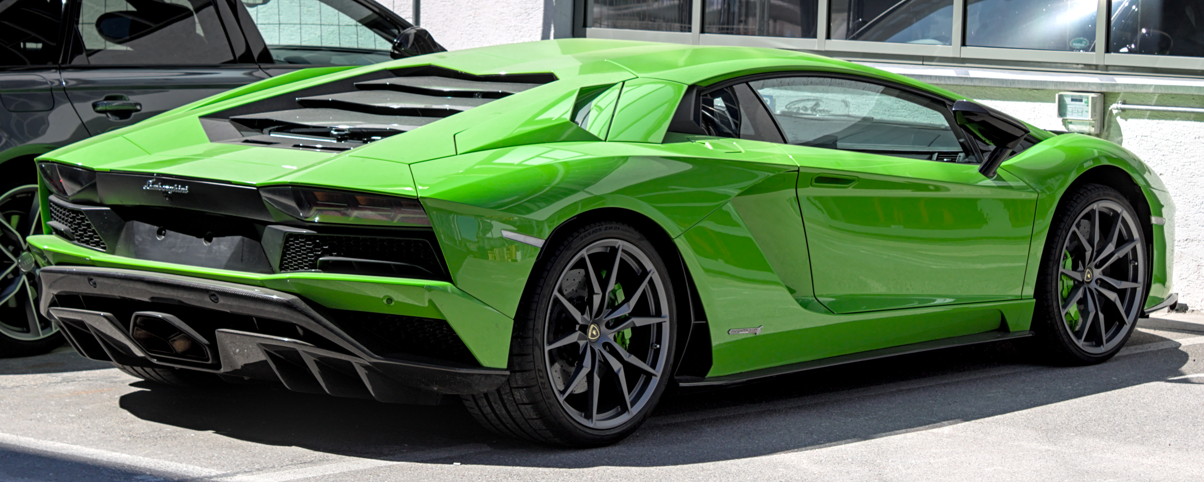 Lamborghini_Aventador_S_coupe in Böblingen